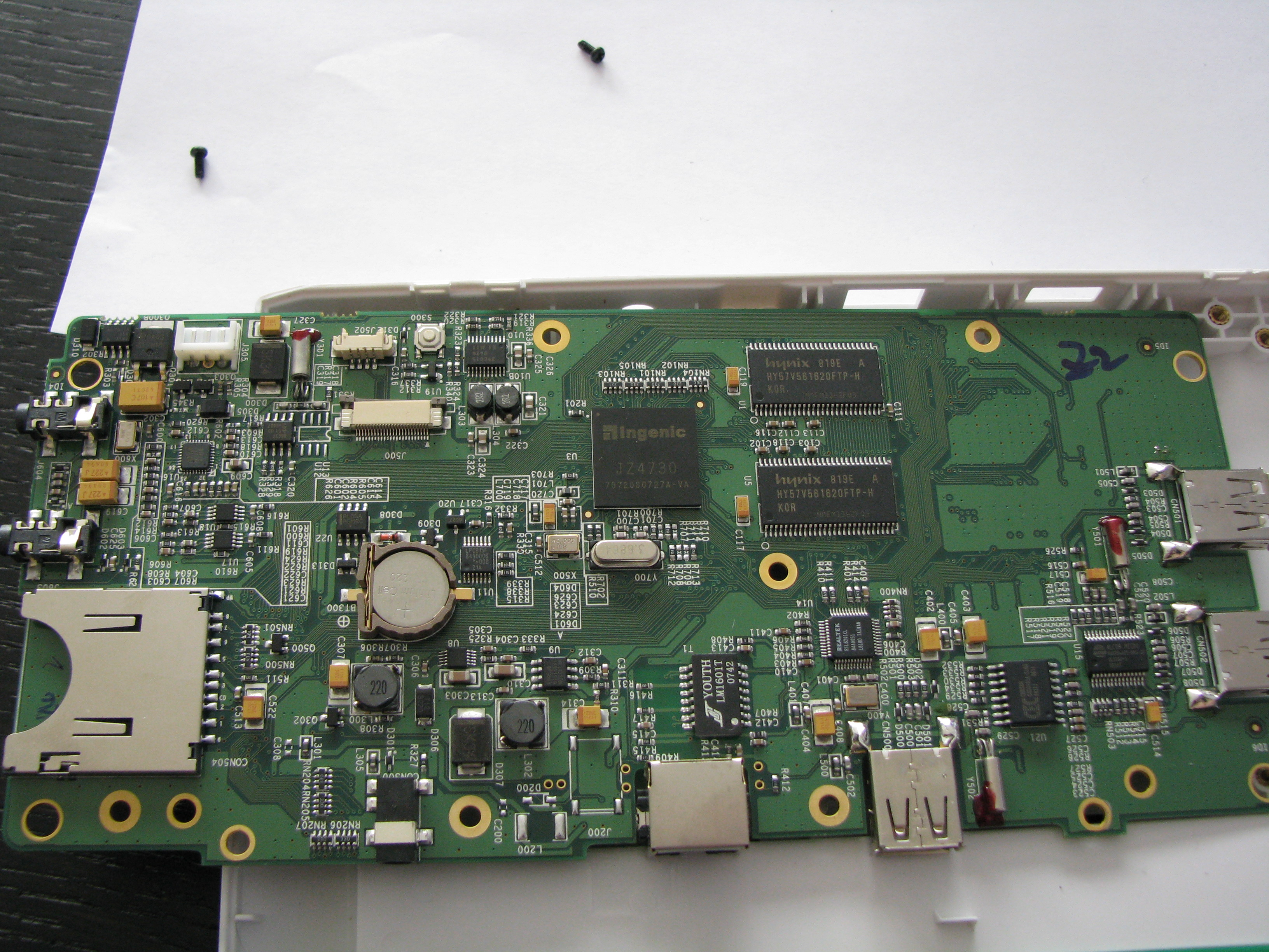 Mainboard of the Skytone Alpha 400